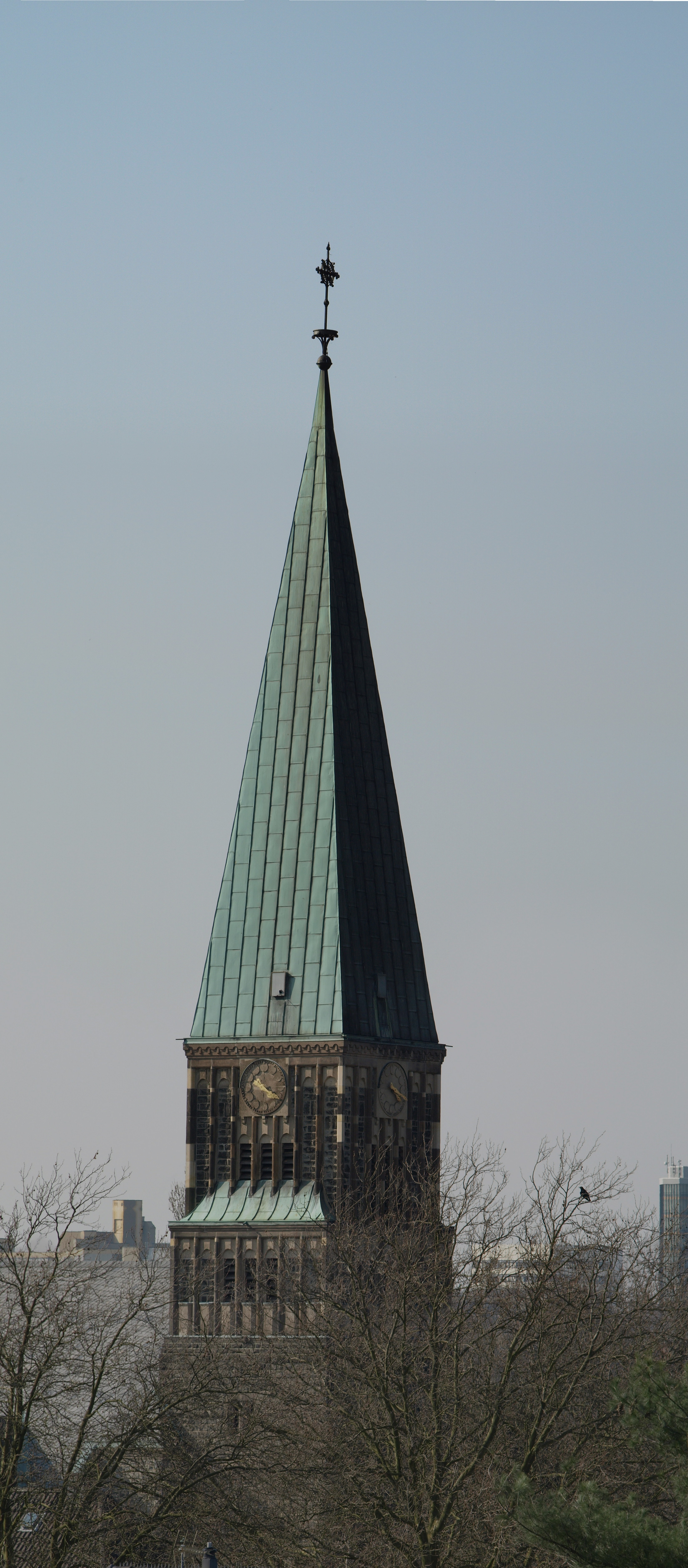 Lutheran church in Dortmund Barop (tower)